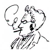 Bildnis Max Stirners a 1841/42 Enlargement of the image of Stirner, in a cartoon by Friedrich Engels (1820 - 1895) of one of the meetings of the group "Die Freien", a philosophical gathering in Berlin in the early 1840s in which Max Stirner .